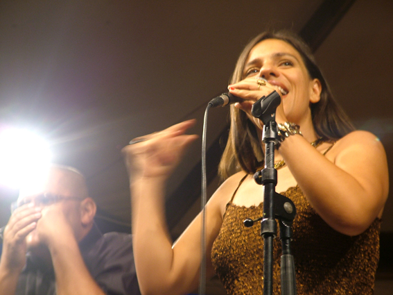 Palya Bea singer at Budapest